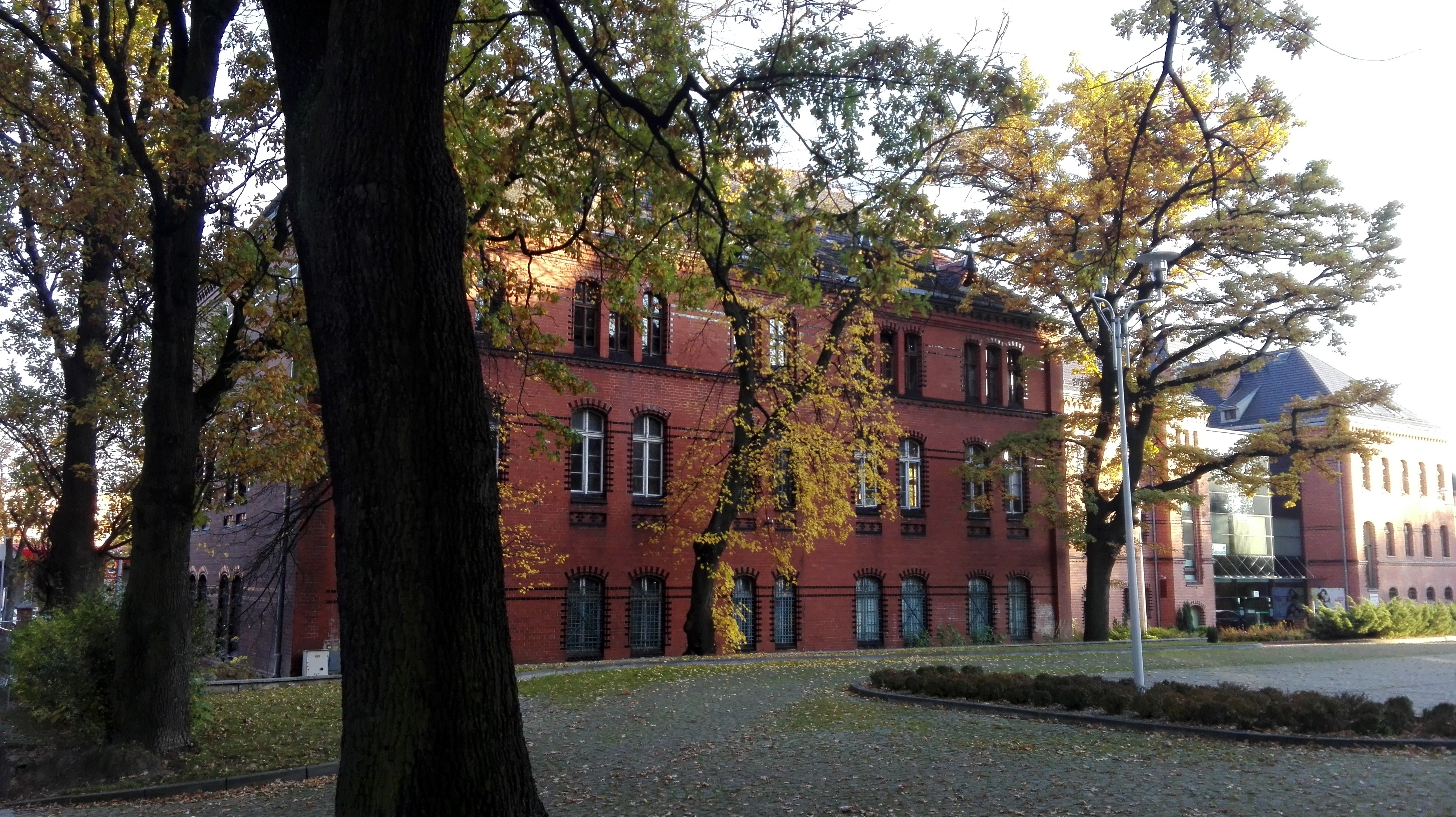 1 Legionów Street in Prudnik